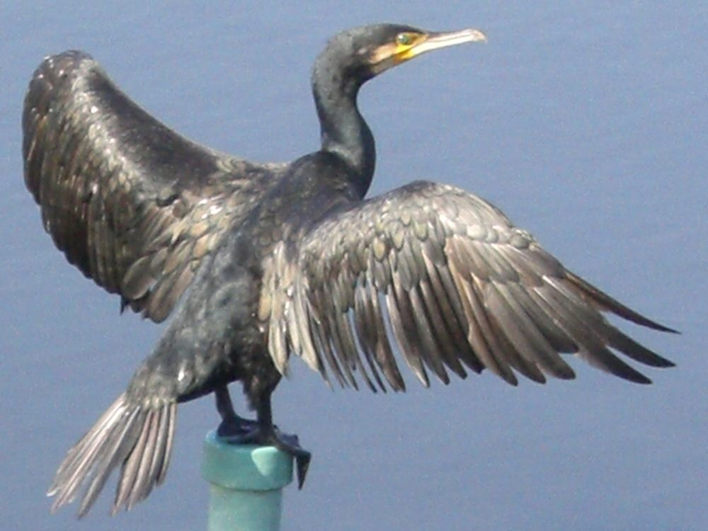 Phalacrocorax_carbo.